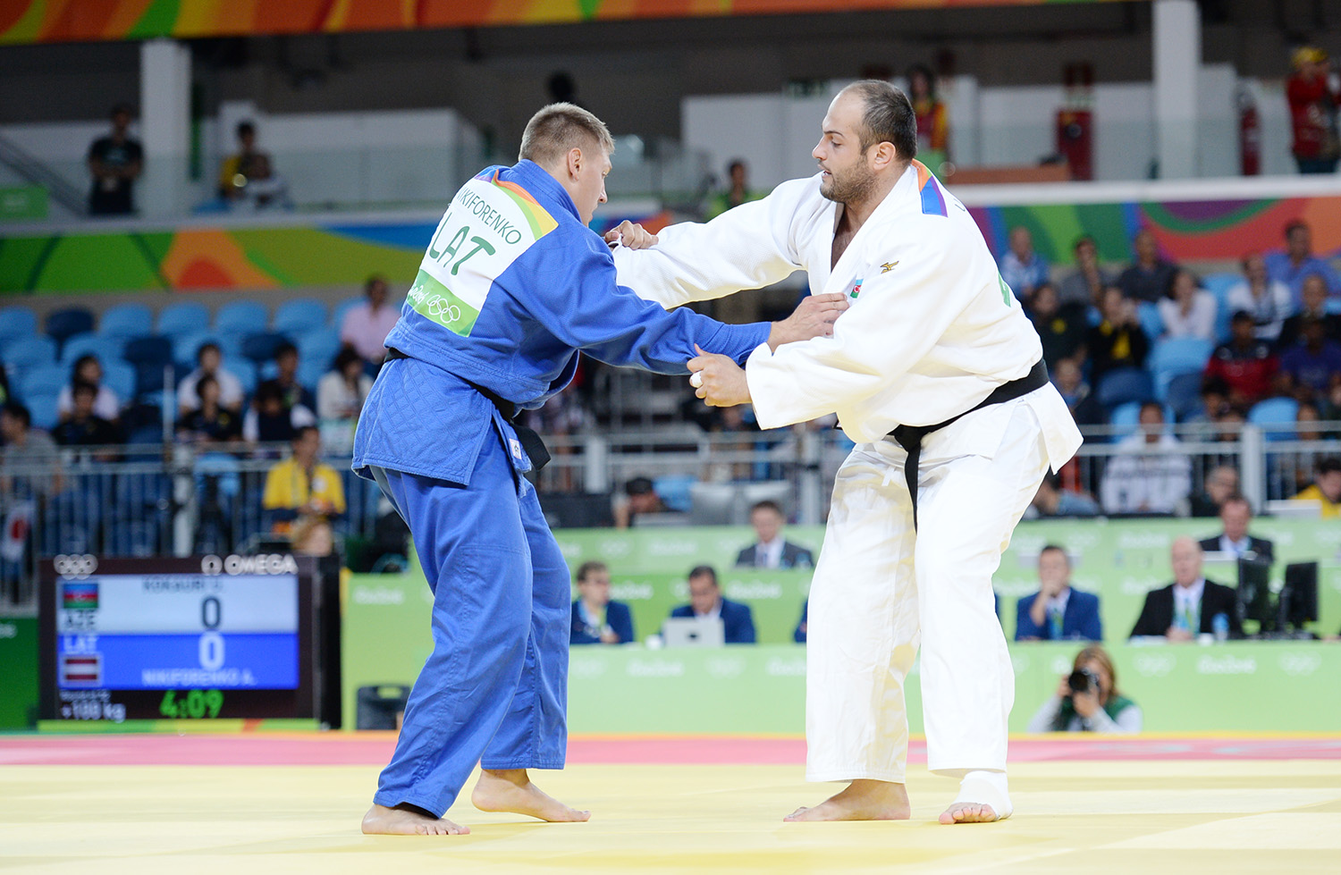 Judo at the 2016 Summer Olympics, Kokauri vs Ņikiforenko